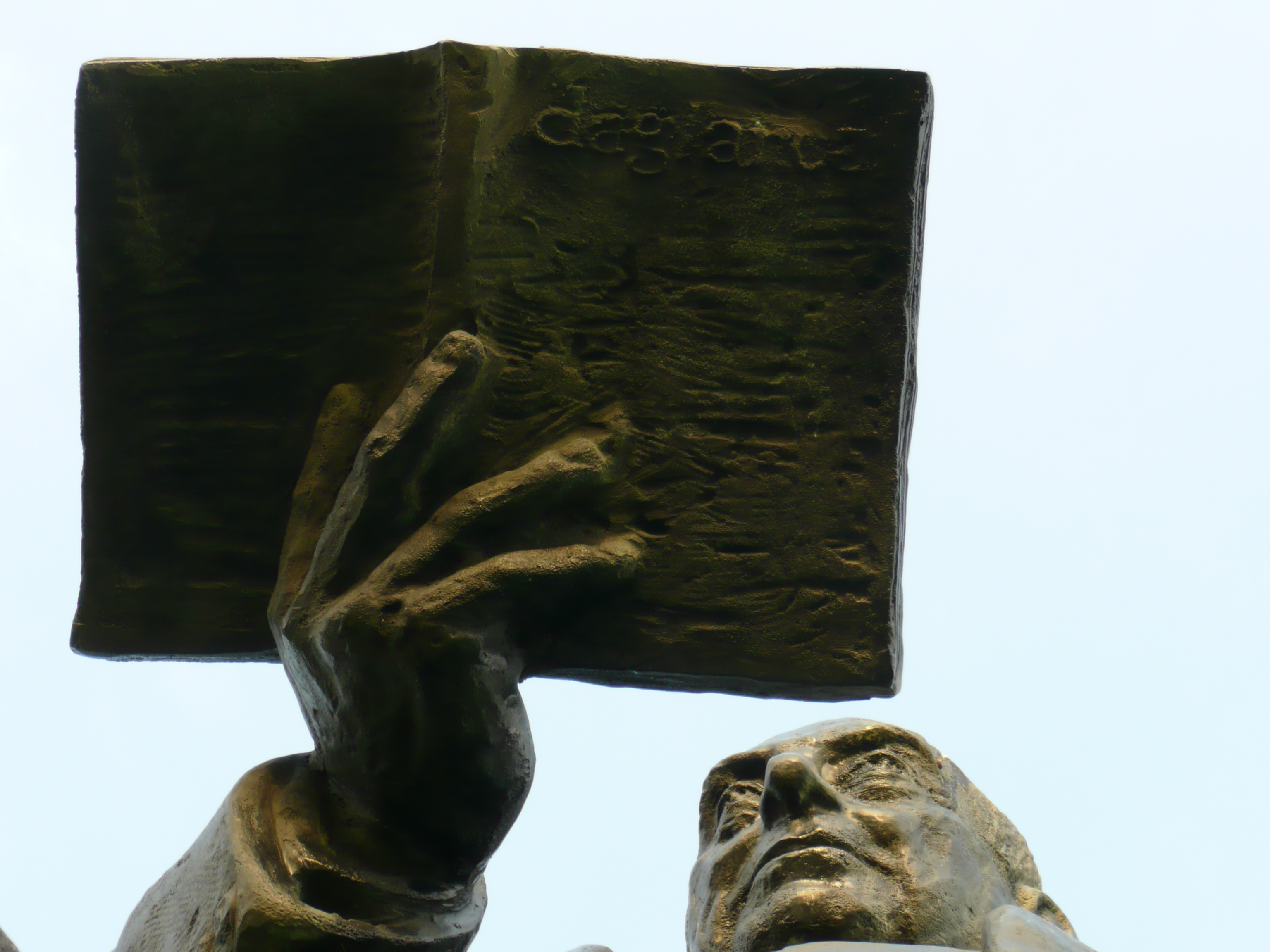 Statue of Fazıl Hüsnü Dağlarca, Kalamış Park, Istanbul